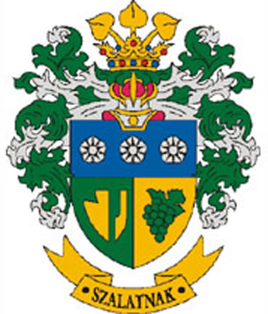 Coat of arms of Szalatnak, Hungary